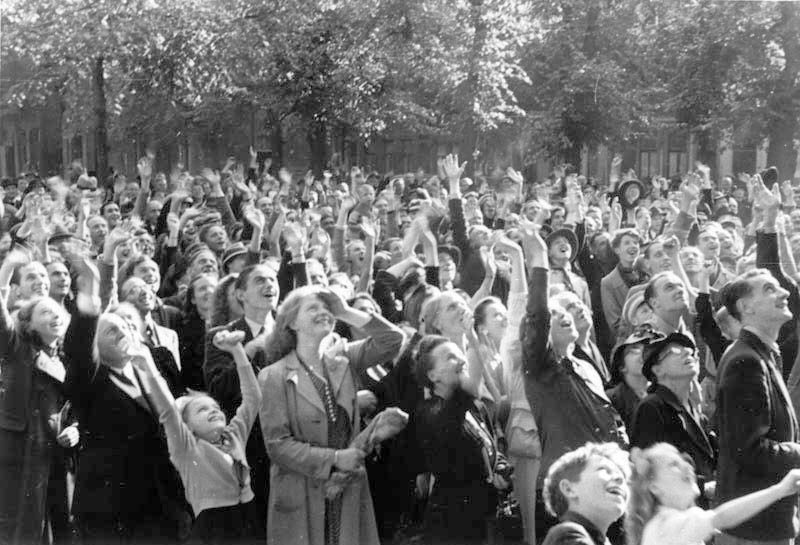 Cheering crowd in front of the police station in Vrijthof square, Maastricht, Netherlands, on the day of the liberation from the German occupation. Photo collection of RHCL Maastricht, ref. nr. 31559.